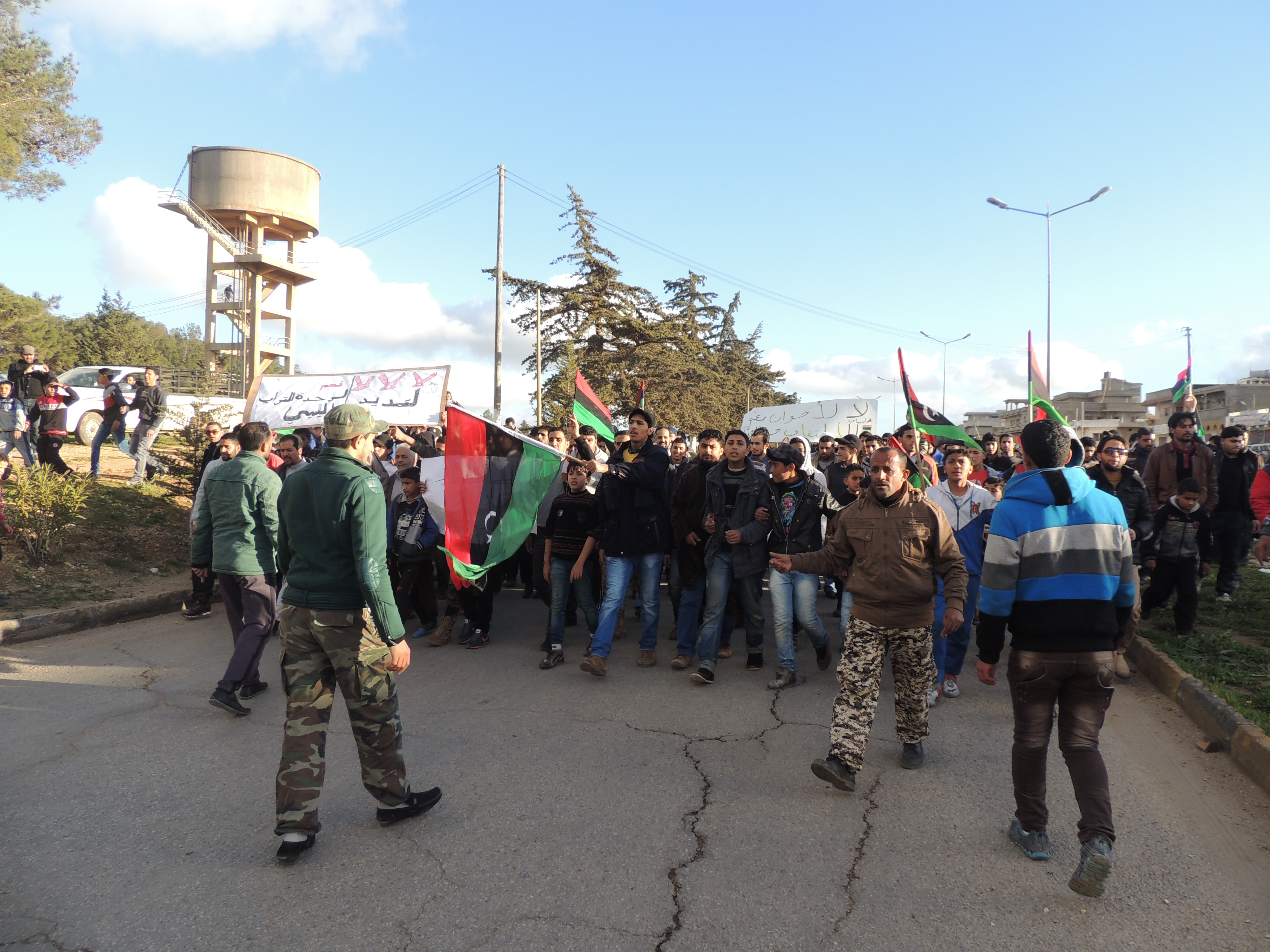 Shahat residents joined in on the national protests against extending the congressional mandate.[1]